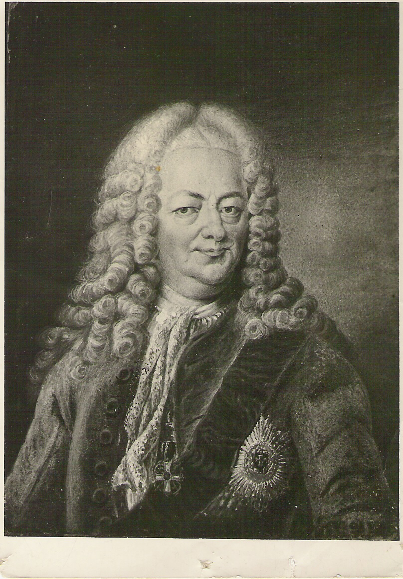 Iver Rosenkrantz - danish politician (18th Century)